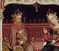 Otto IV, Holy Roman Emperor